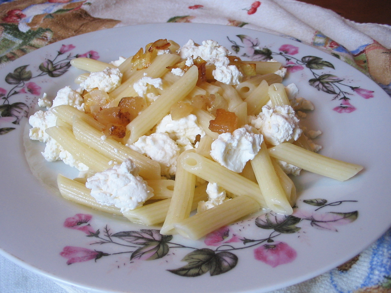 Cheese curd with noodles, fried onions and pork rinds